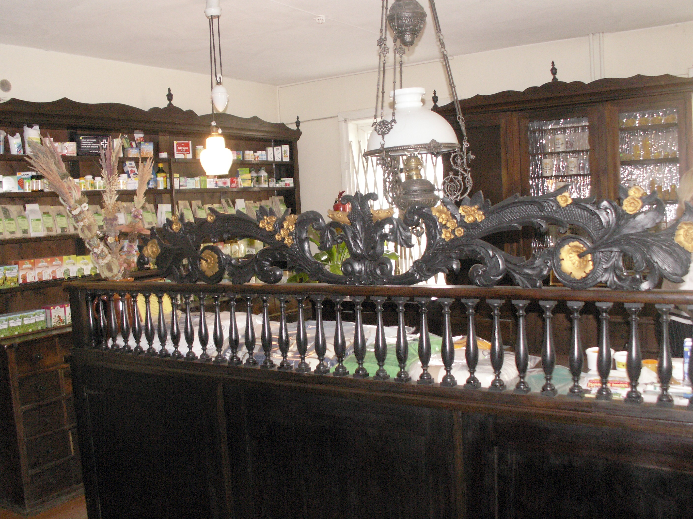 Viekšniai, Lithuania